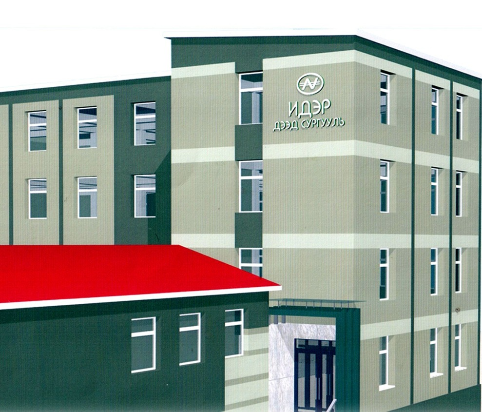 Ider University's main academic building has been newly renovated.